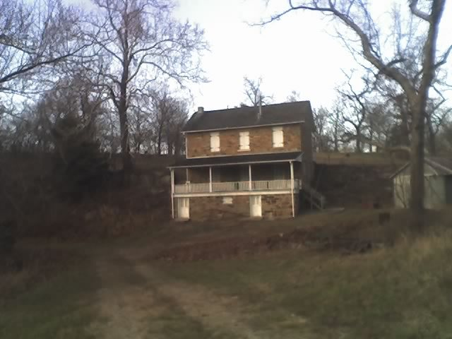 Author=Brian Hall, taken near the Marais des Cygne Massacre site in Linn County, Kansas.